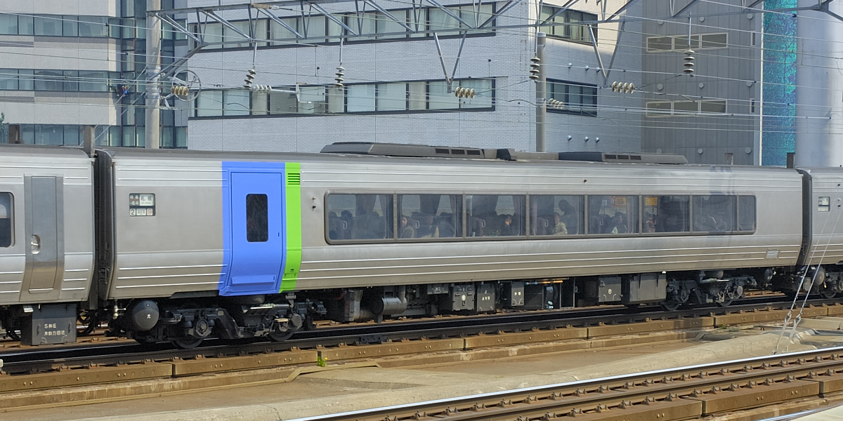 JR Hokkaido KiHa 281 series DMU car KiHa 280-901 (pre-production car) at Sapporo Station on a Super Hokuto service